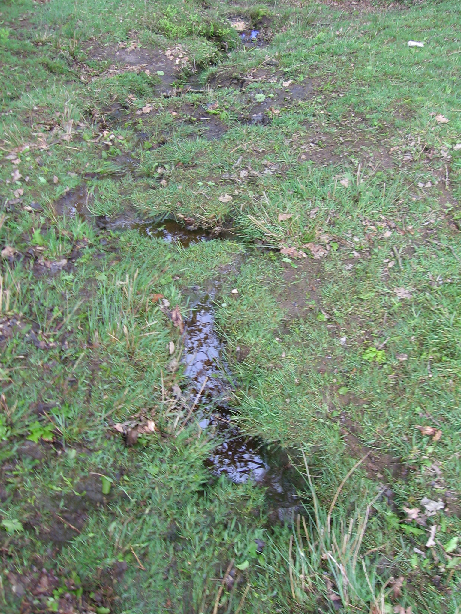 A small stream at Holford Combe in Somerset, England, United Kingdom.